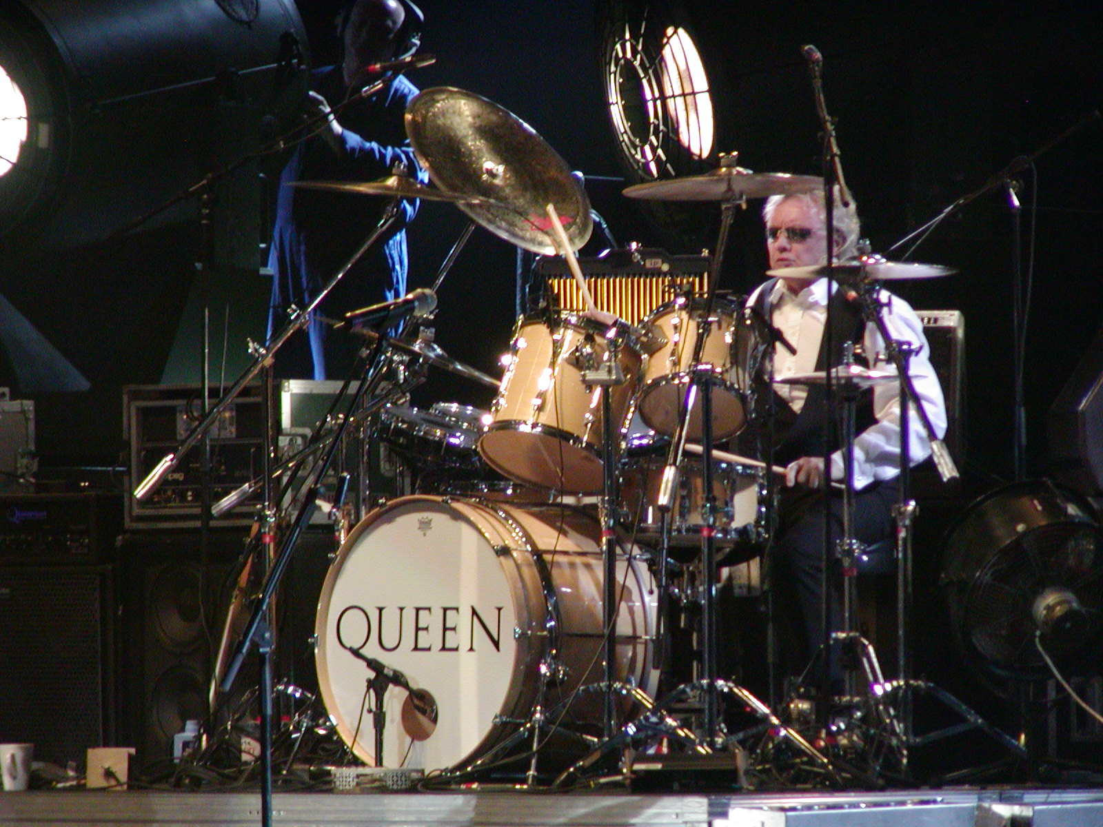 Roger Taylor in 2005.